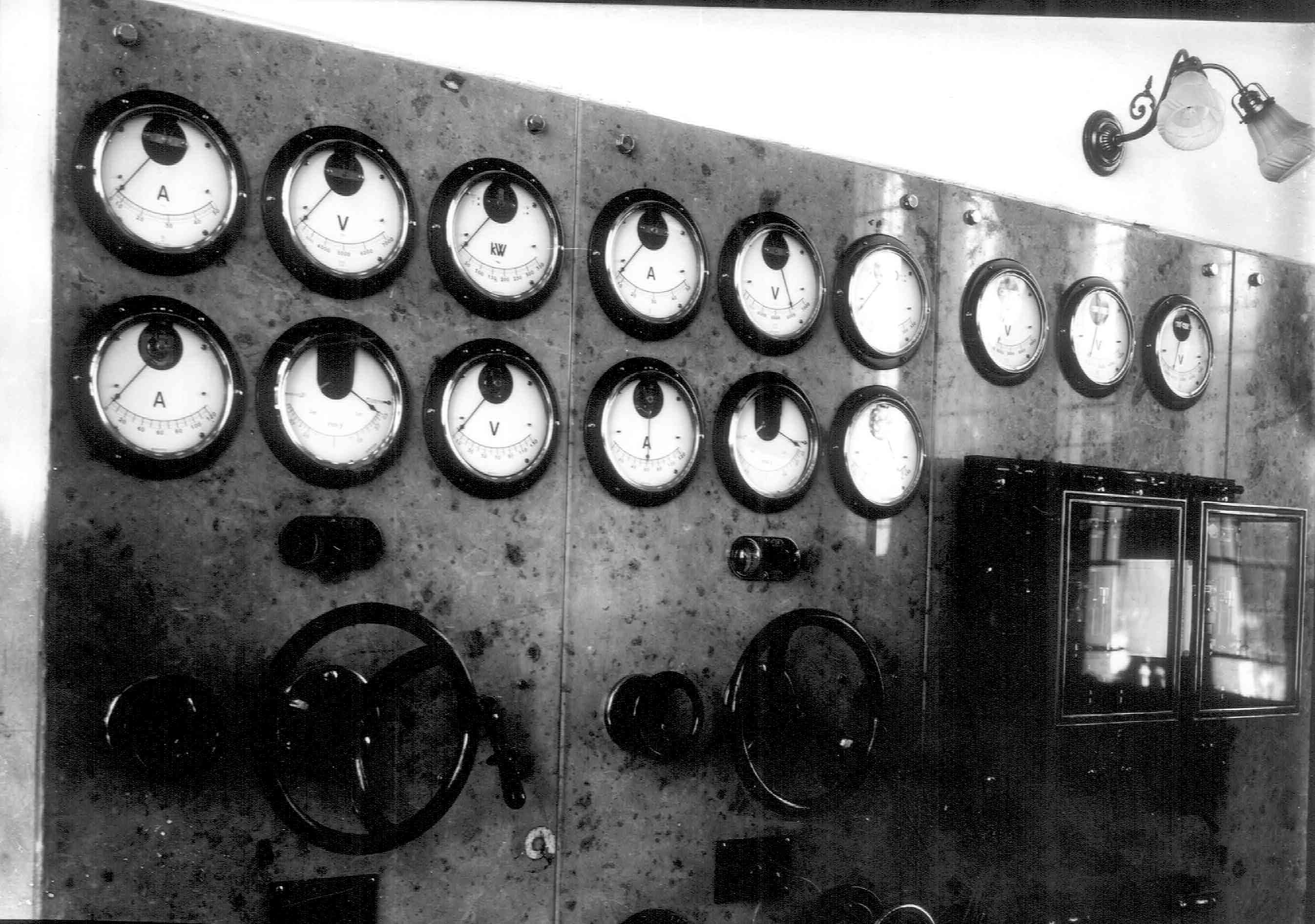 Table command power plant